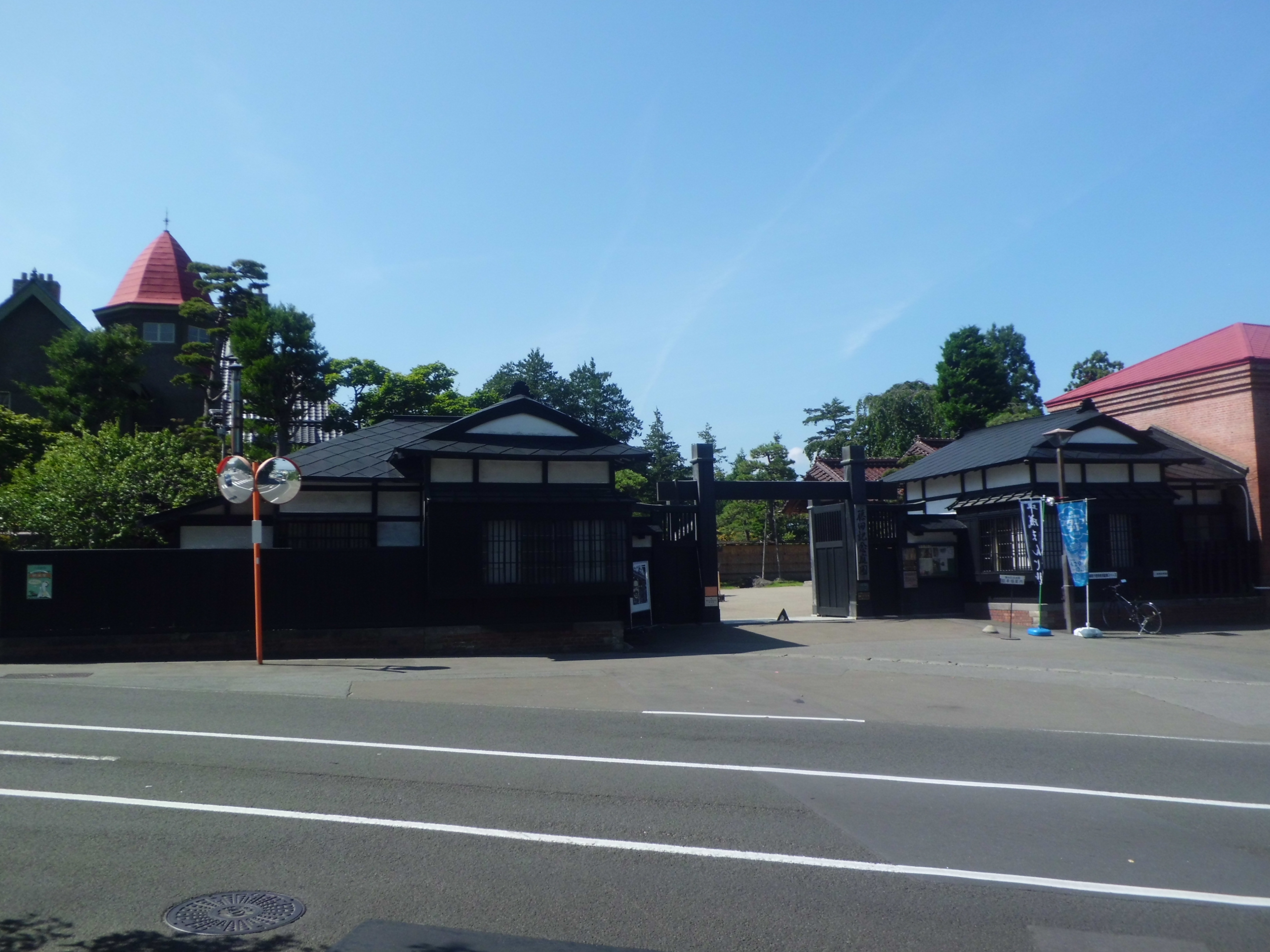 Fujita Memorial Garden